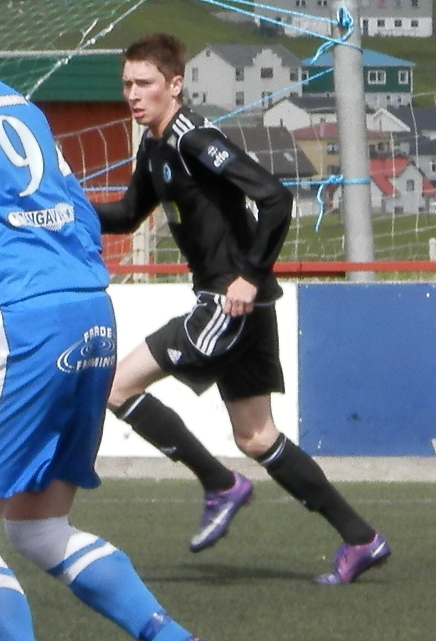 Kaj Leo í Bartalsstovu in 2012, when playing for Víkingur Gøta.